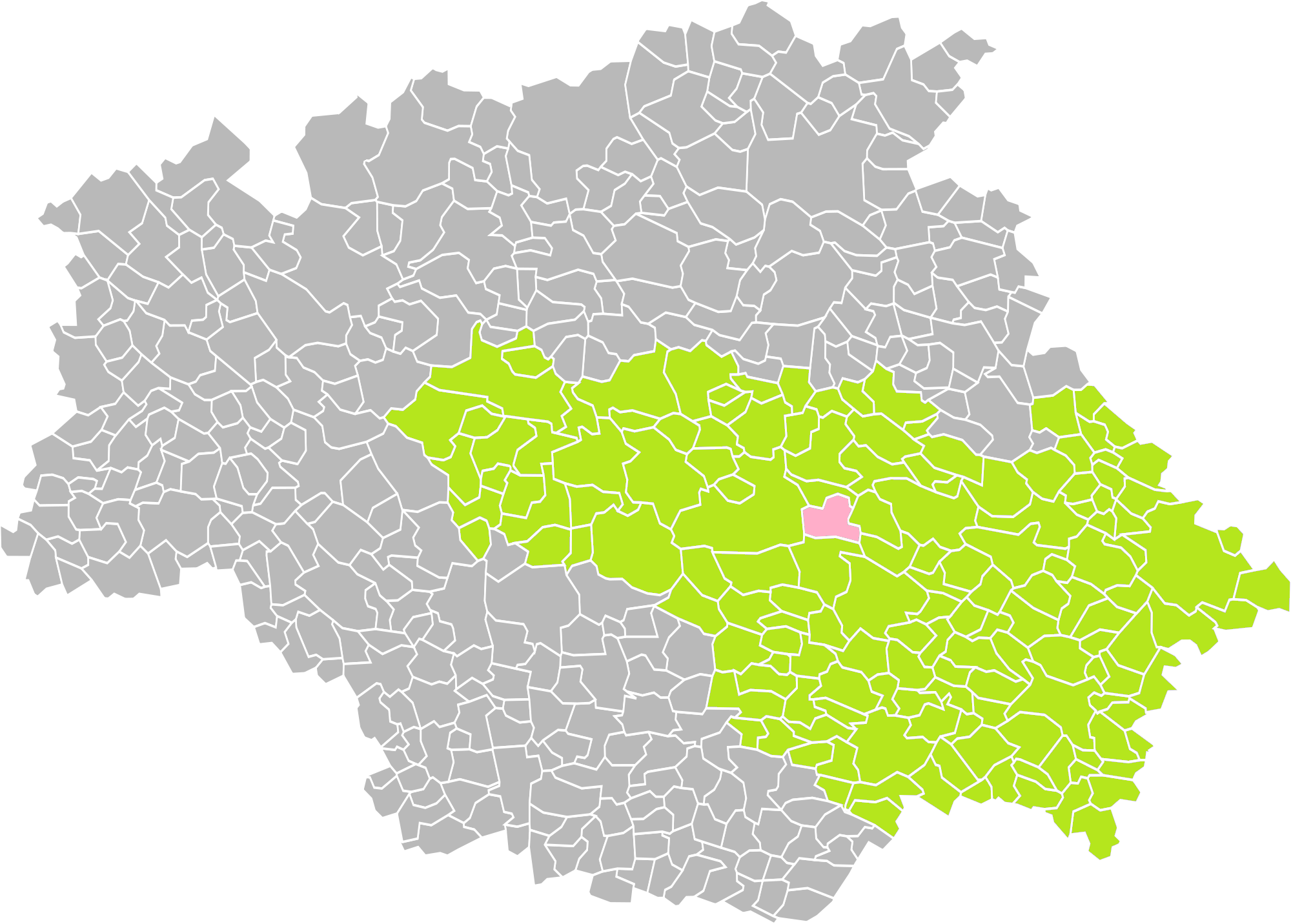 Location of the commune of Lahitte in the arrondissement of Auch (Gers)